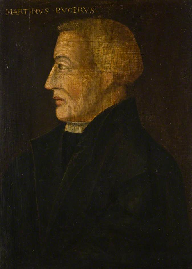 Oil on panel, 48.2 x 34.2 cm. Long bust portrait, the sitter is bareheaded and faces left. He wears a black gown and white shirt. The University of Edinburgh Art Collection.